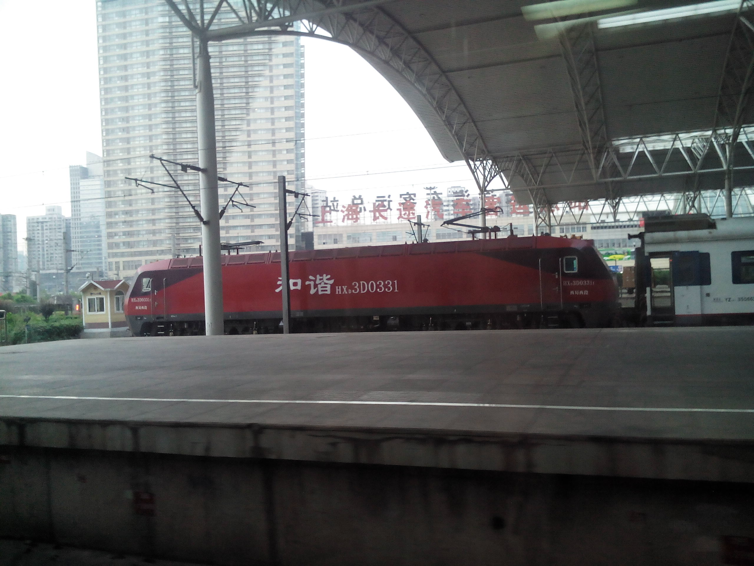 201504 HXD3D-0331 hauls Z92 at Shanghai Station (1)